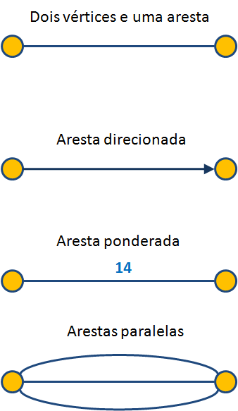 Examples of edges